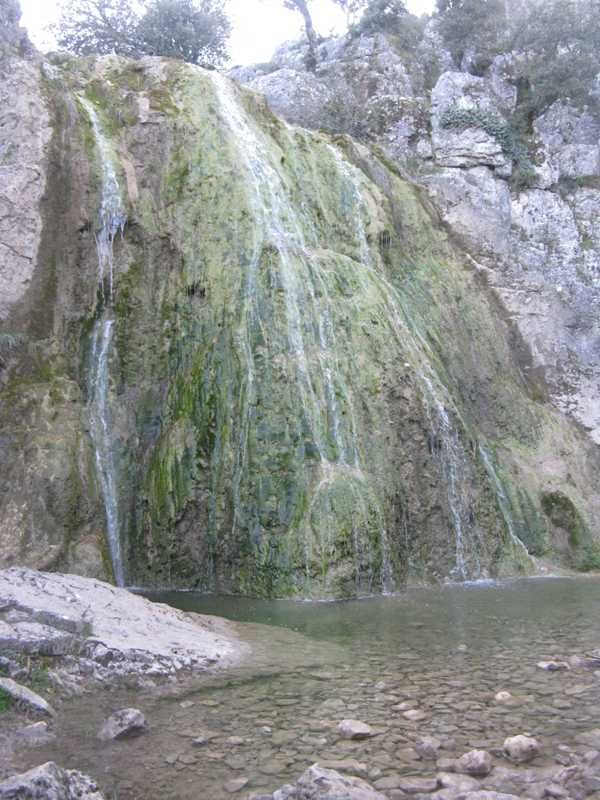 Cascade "Las Chorreras" in poldje "La Nava", Sierra de Cabra (Cordoba), Spain.